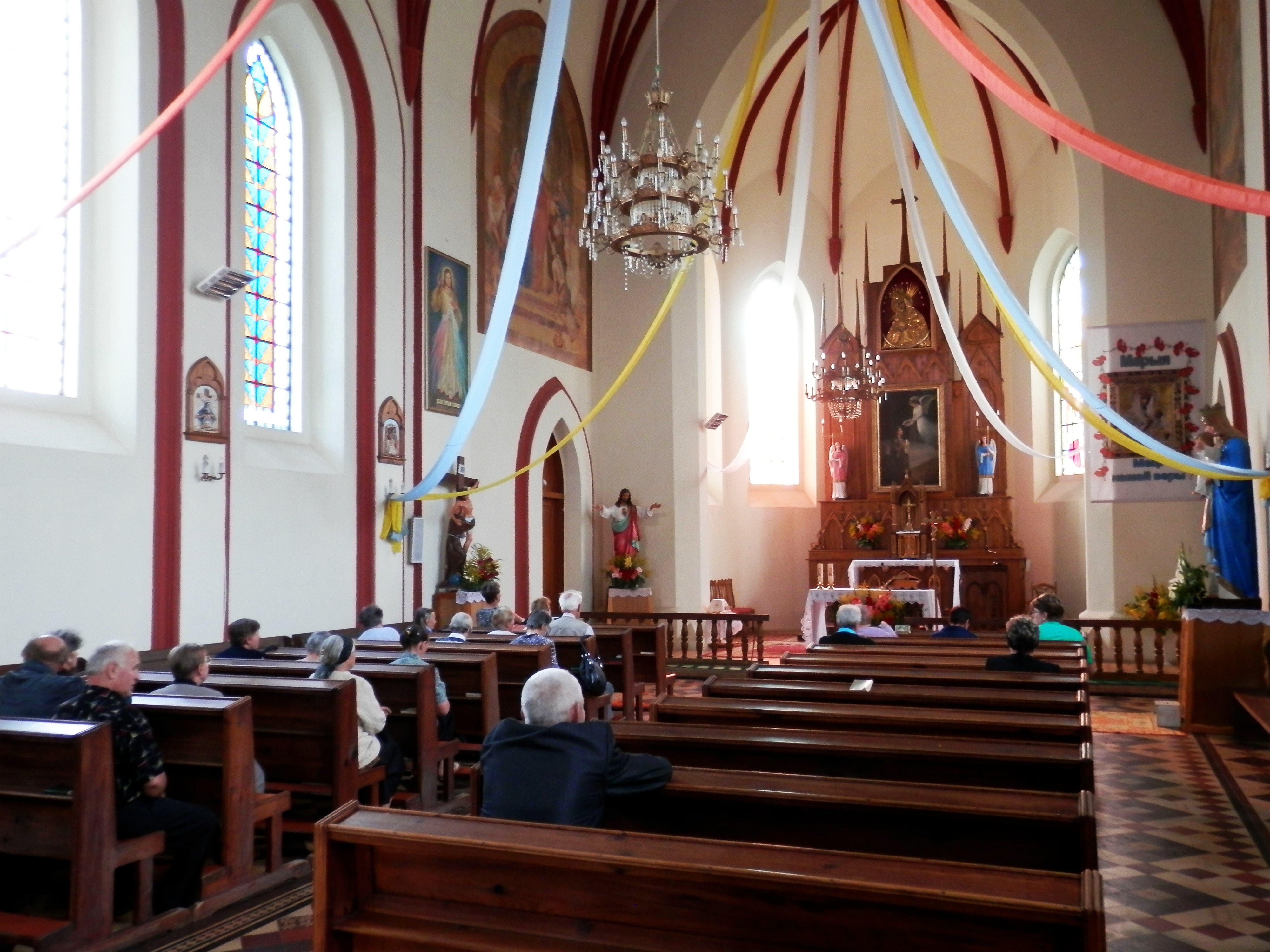 Franciscan Church of Saint Alex. Ivyanets, Belarus